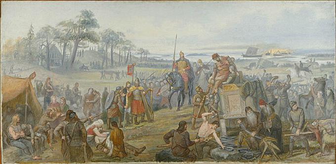 After the Battle of Fyrisvall. Beorn the Strident and Strong (Styrbjörn starke) injured. Proposed Decoration of the Walls in the Upper Hall of the NM